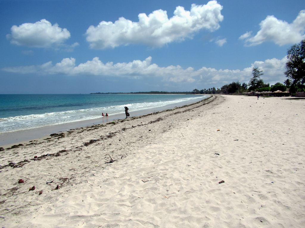 A number of low key resorts face South Beach near Dar es Salaam, Tanzania.